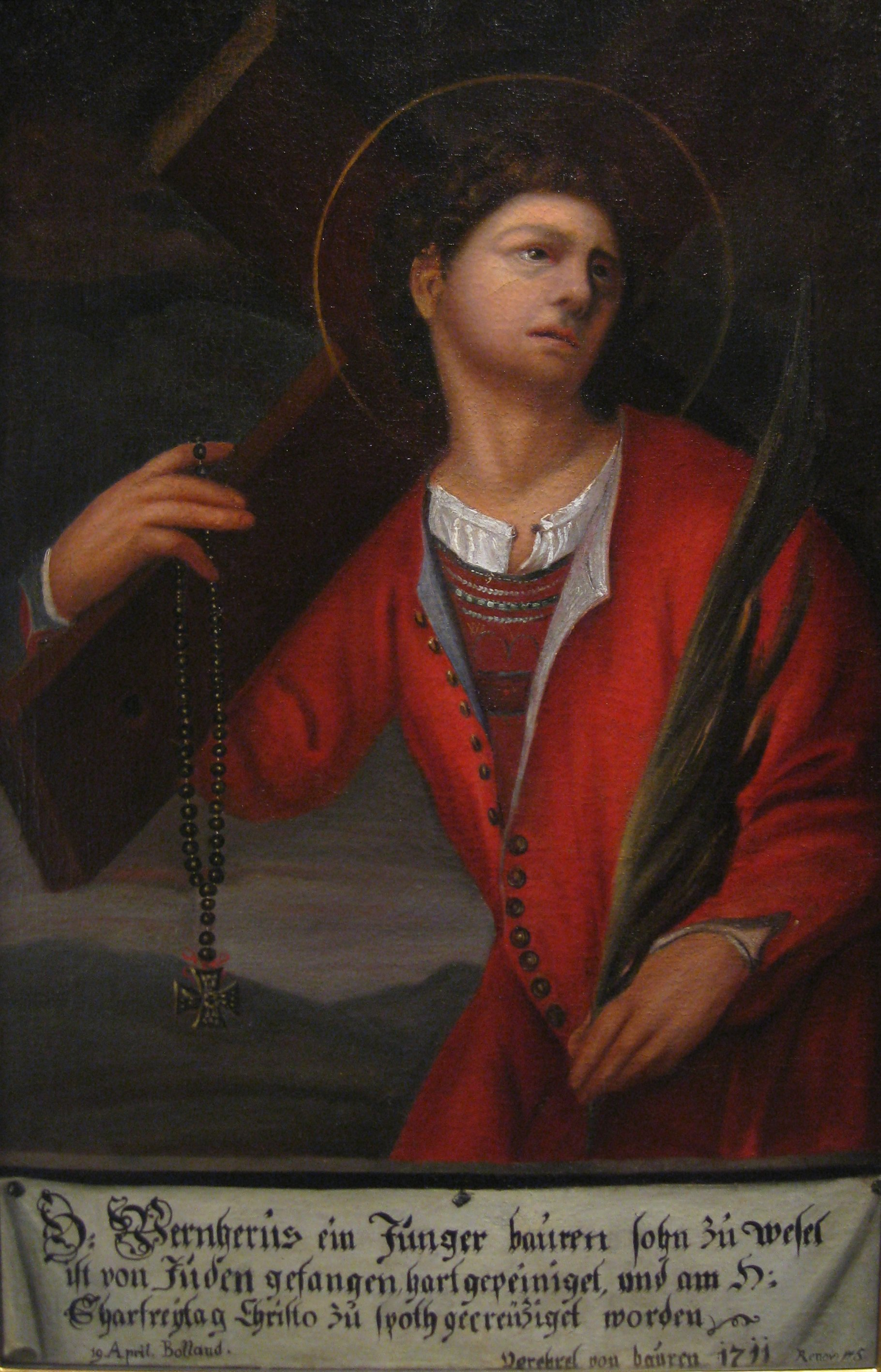 Photo of an oil painting in the Berlin Jewish Museum. The original painting is dated 1711 and therefore public domain. The associated text "The Jew as Scapegoat" states that this painting is of Werner von Oberwesel, a Christian boy allegedly murdered by Jews, an incident that led to revenge killing of Jews throughout Europe.